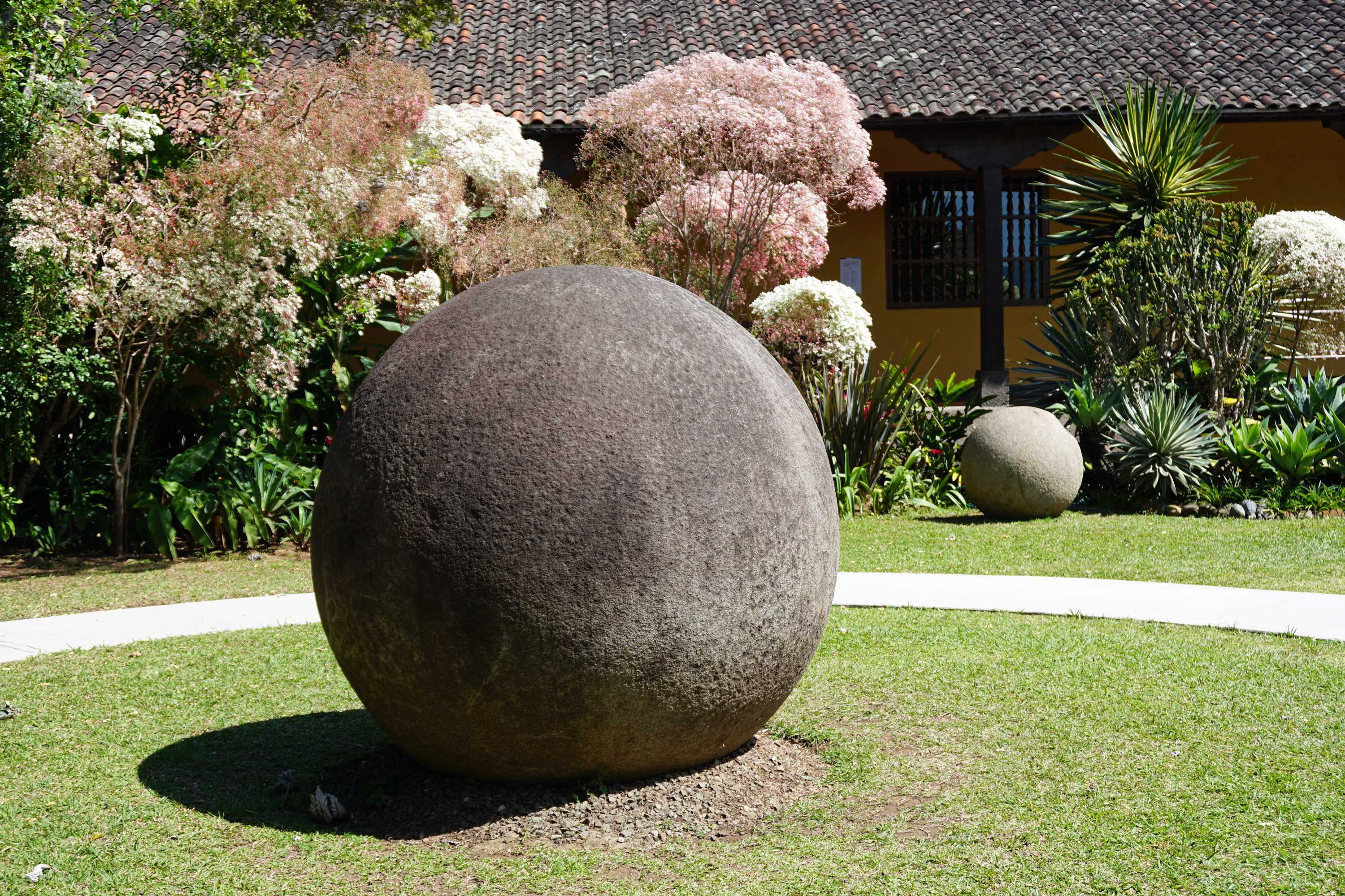 Stone spheres of the Diquís on display in the main courtyard of the Museo Nacional de Costa Rica. A smaller stone sphere in the background.